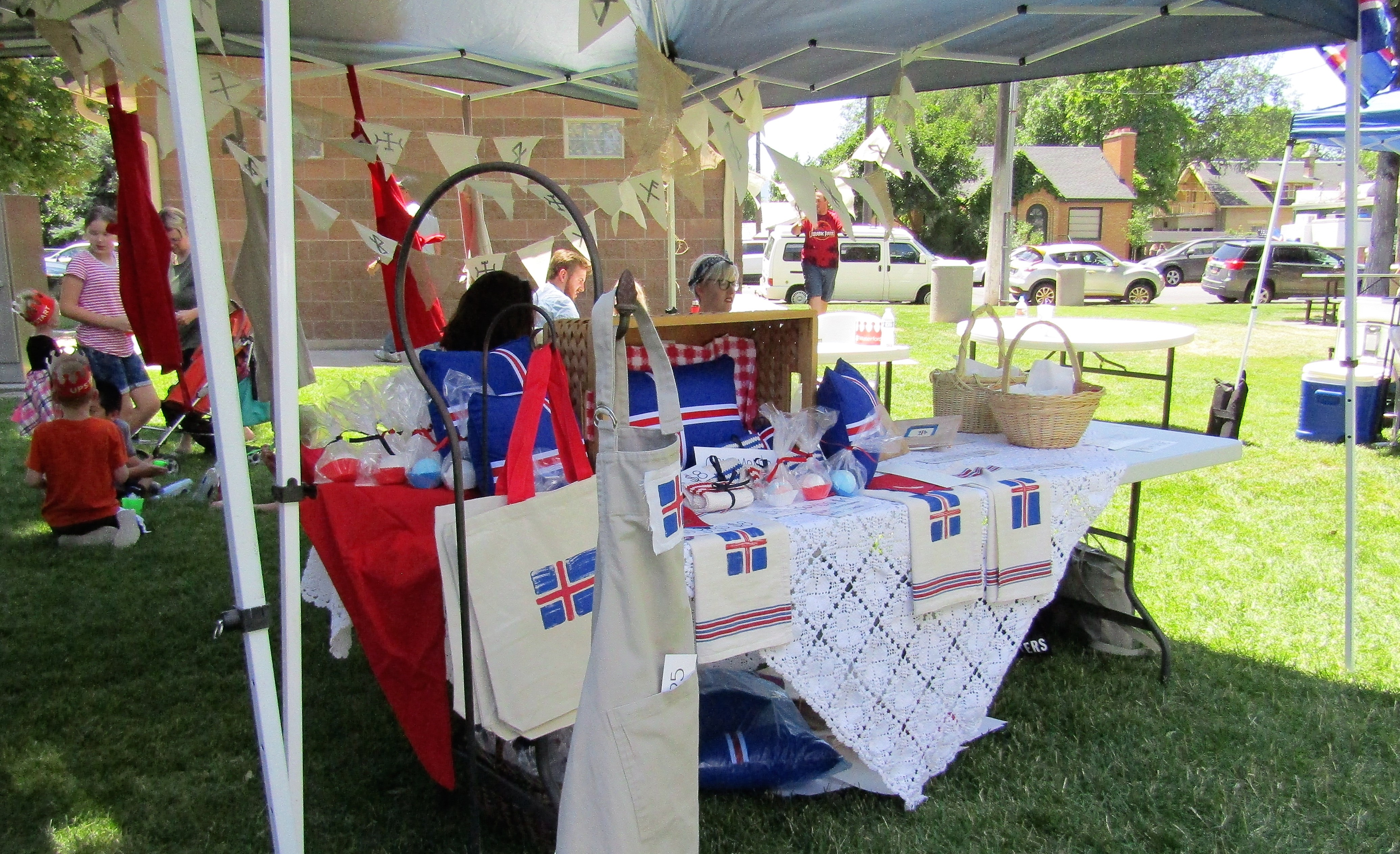 Booth at the Fire & Ice Festival in Spanish Fork, Utah selling accessories with the flag of Iceland.